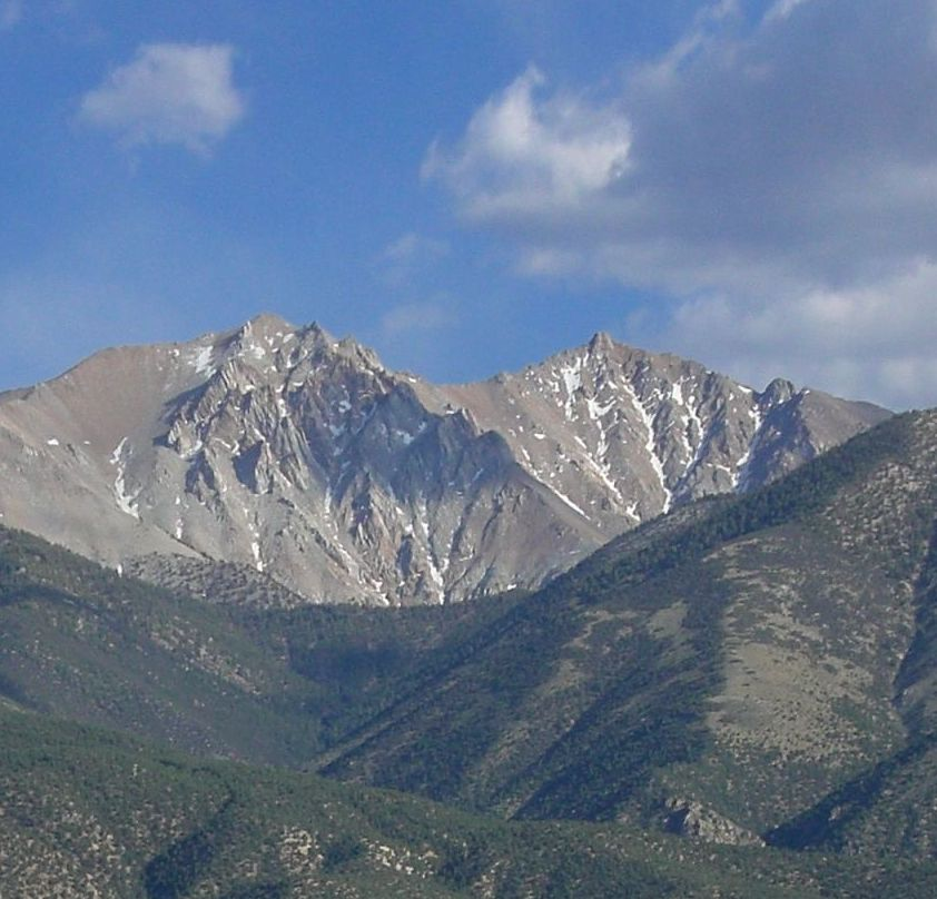 Boundary and Montgomery Peaks in Nevada and California (respectively). Photo taken in late May of 2007.